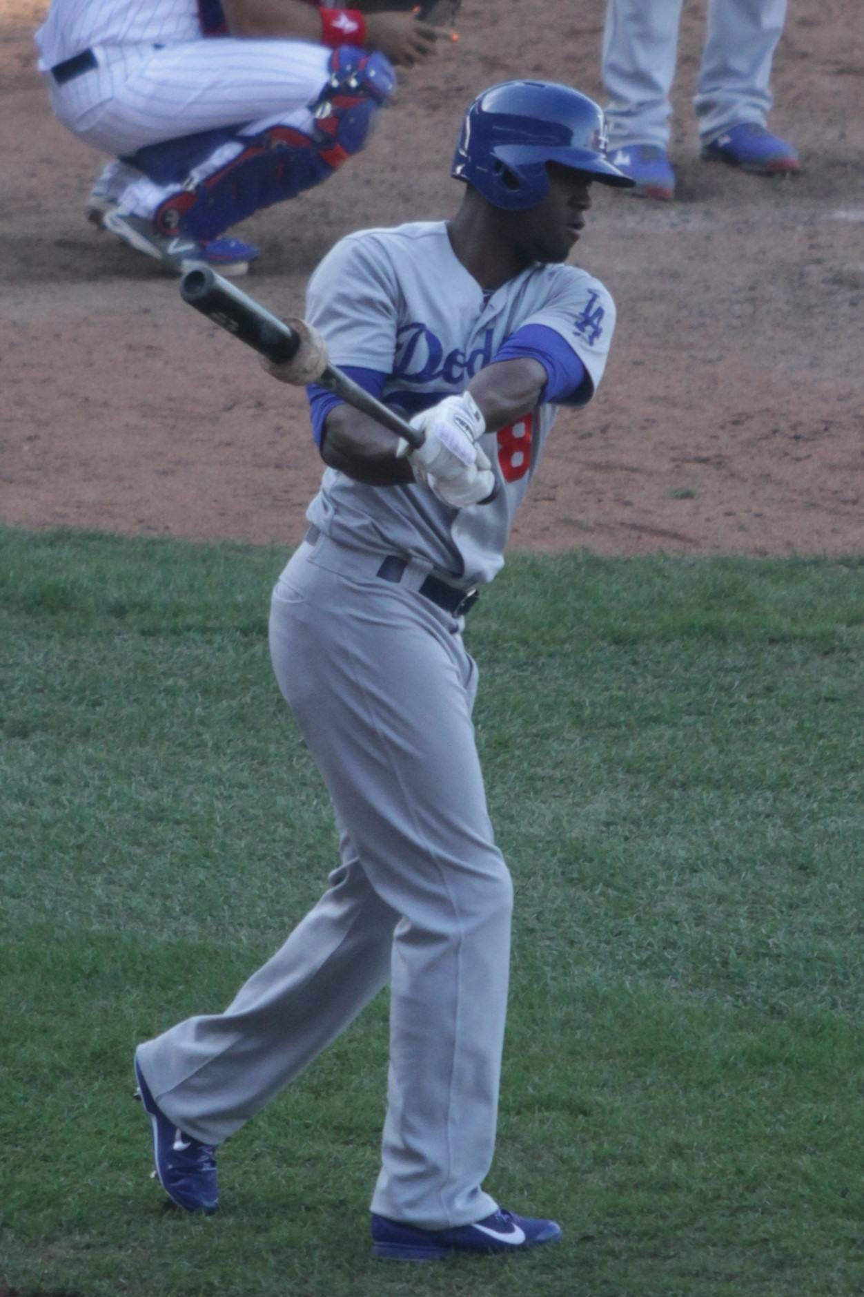 Roger Bernadina for the 2014 Los Angeles Dodgers against the 2014 Chicago Cubs at Wrigley Field.